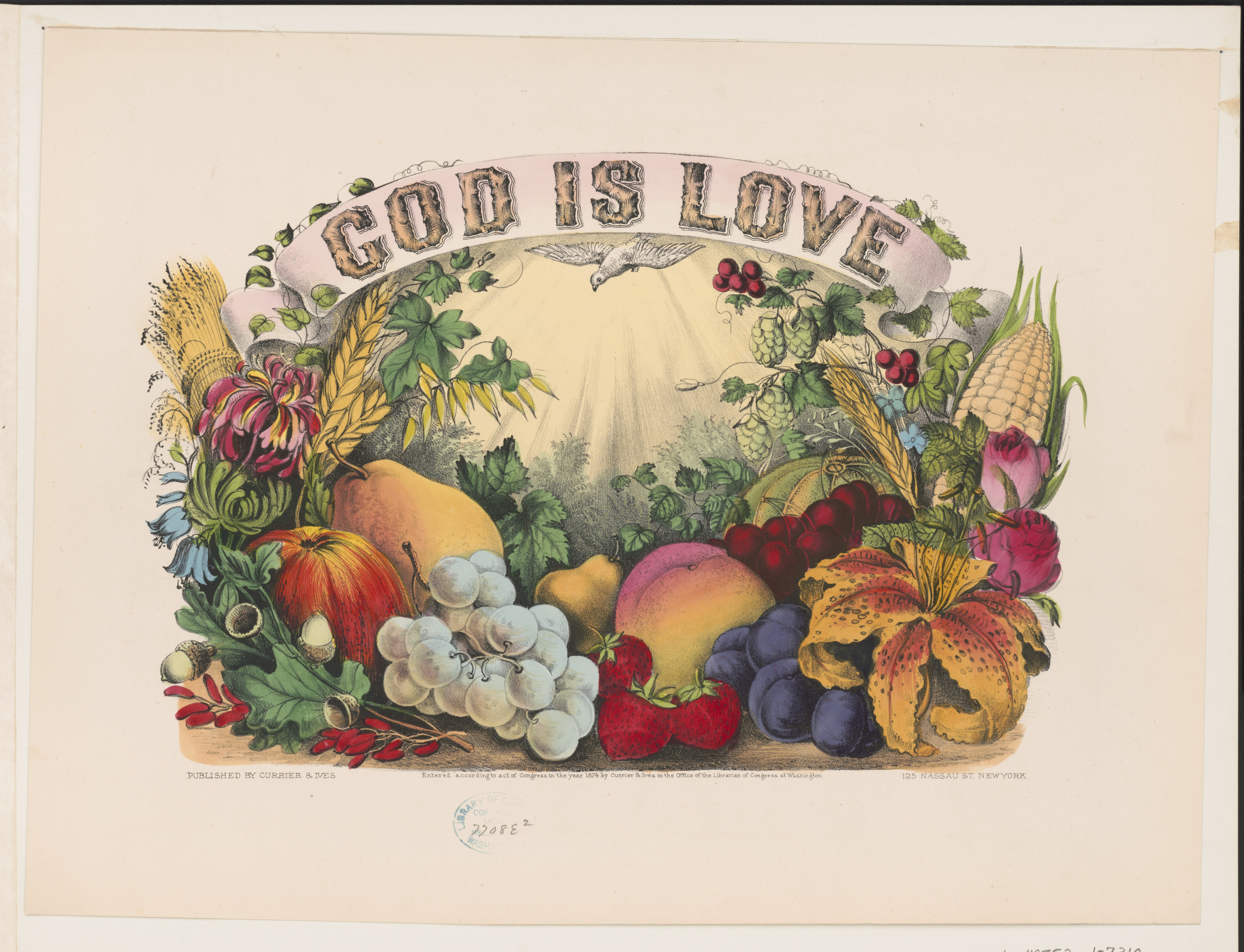 Title: God is love Abstract/medium: 1 print : lithograph, hand-colored.